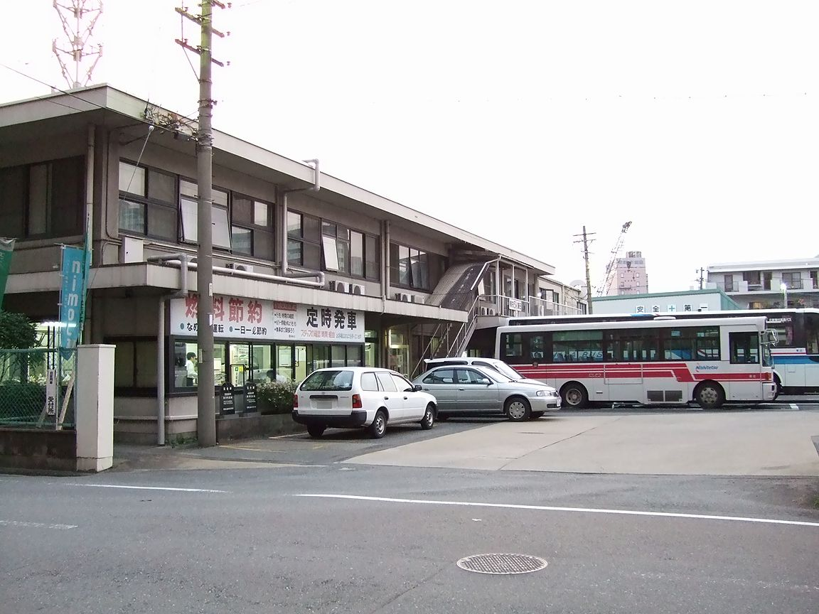 Nishitetsu bus Hakata Depot